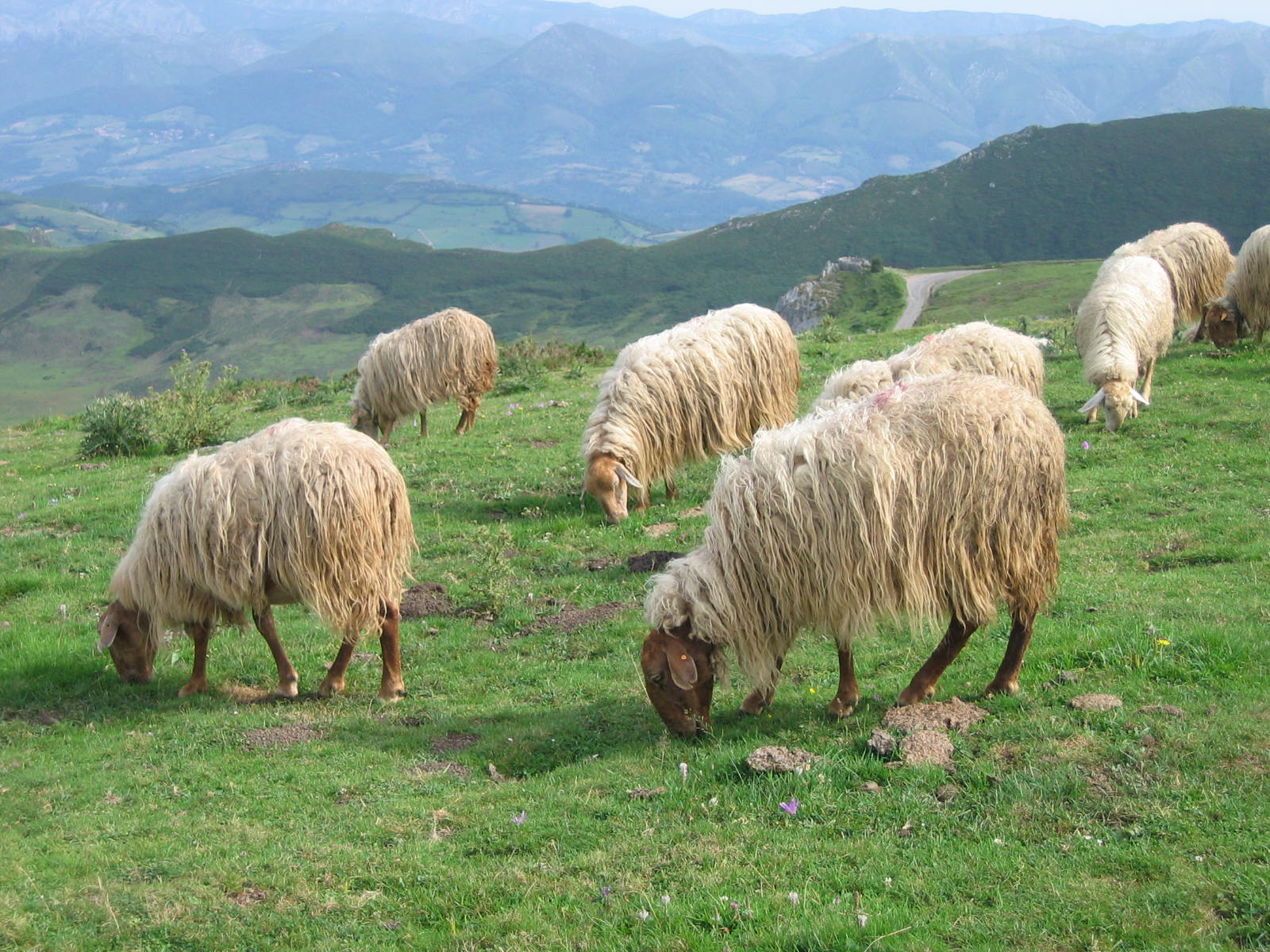 Sheeps on Picos de Europa, Asturias.